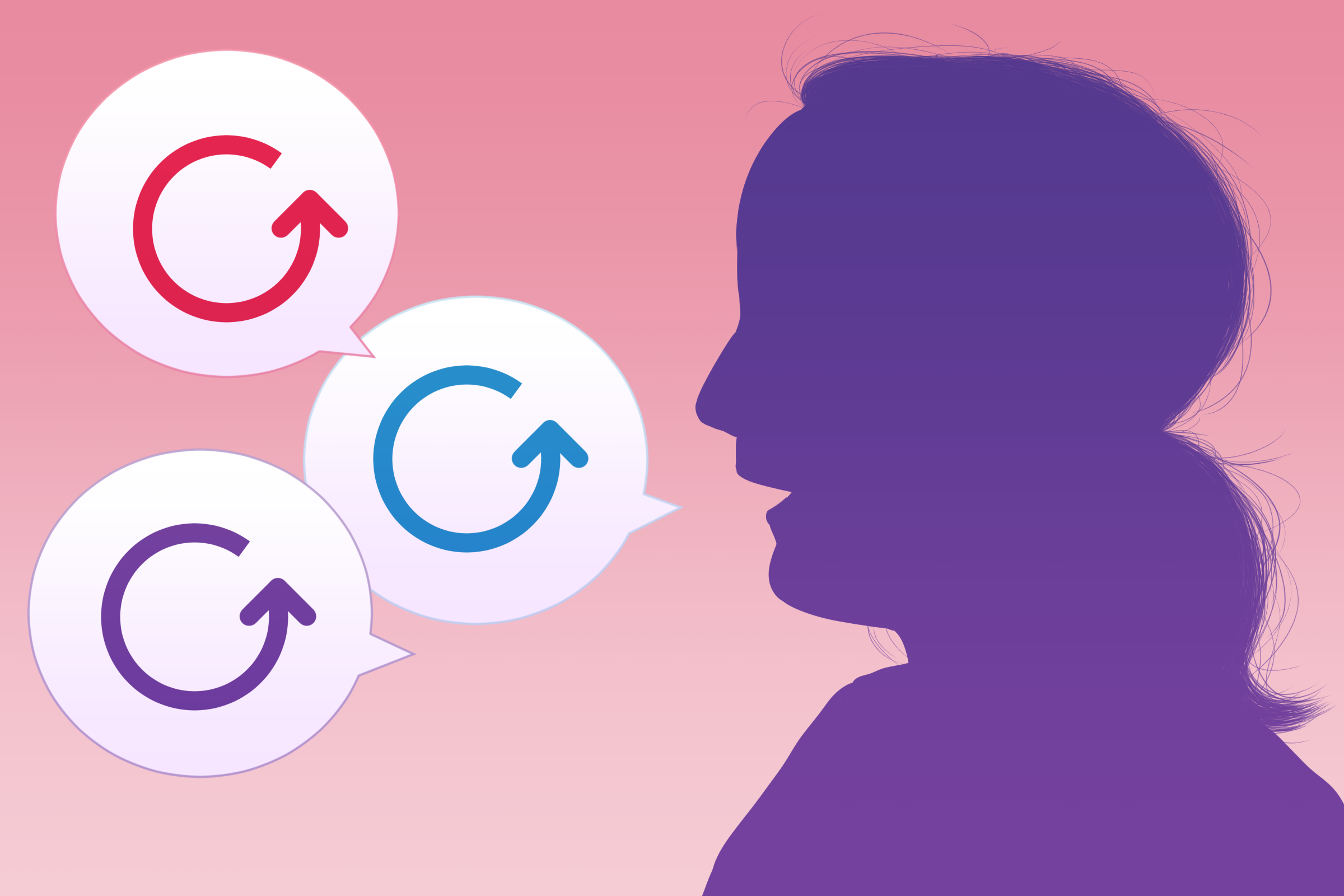 Autistic people may use echolalia to communicate, aid with short-term memory, stim, or have fun. While echolalia in small children may be the sign of growing language skills, teens and adults may still use echolalia to suit their needs.